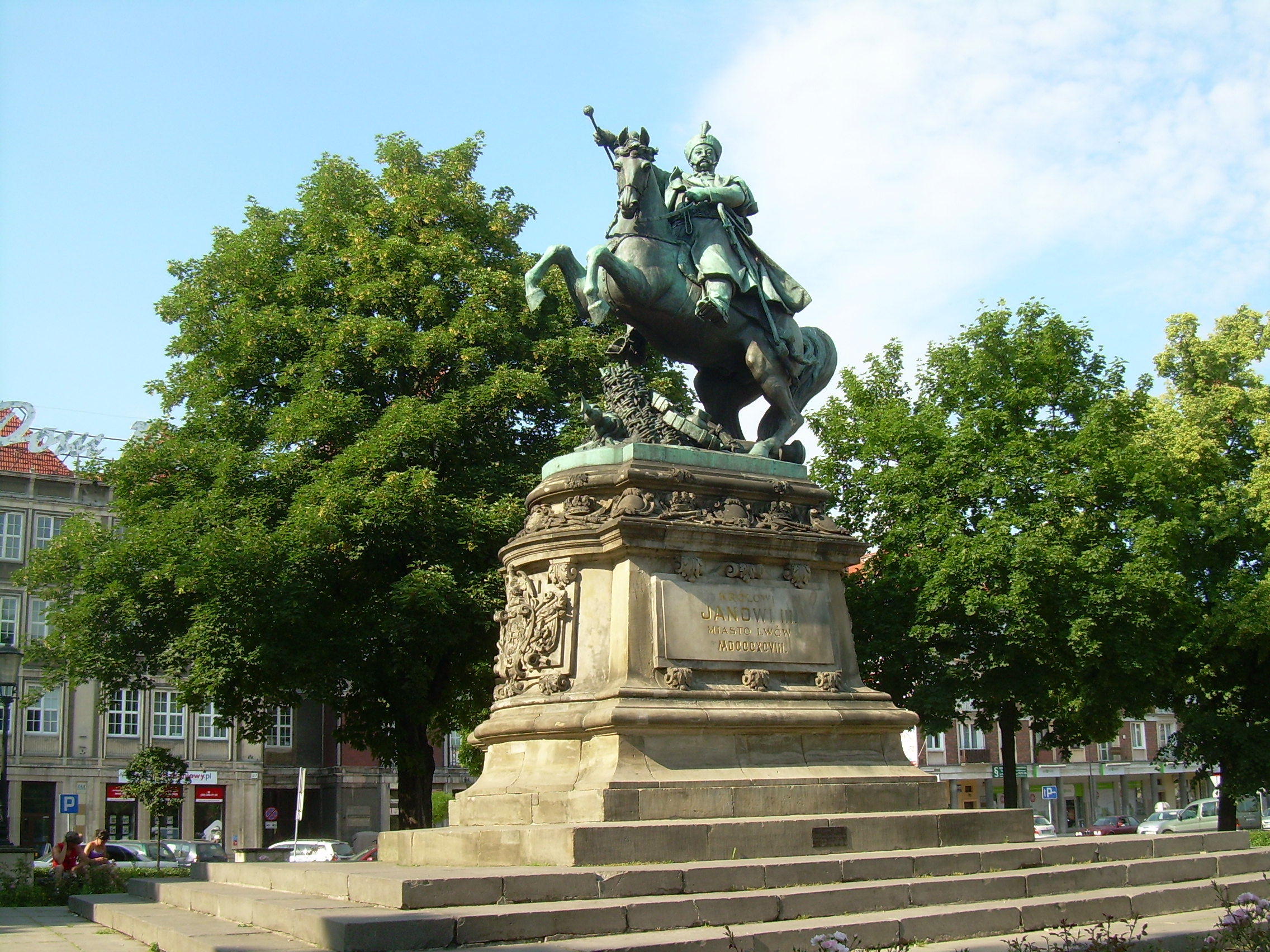 John III Sobieski Monument in Gdańsk.